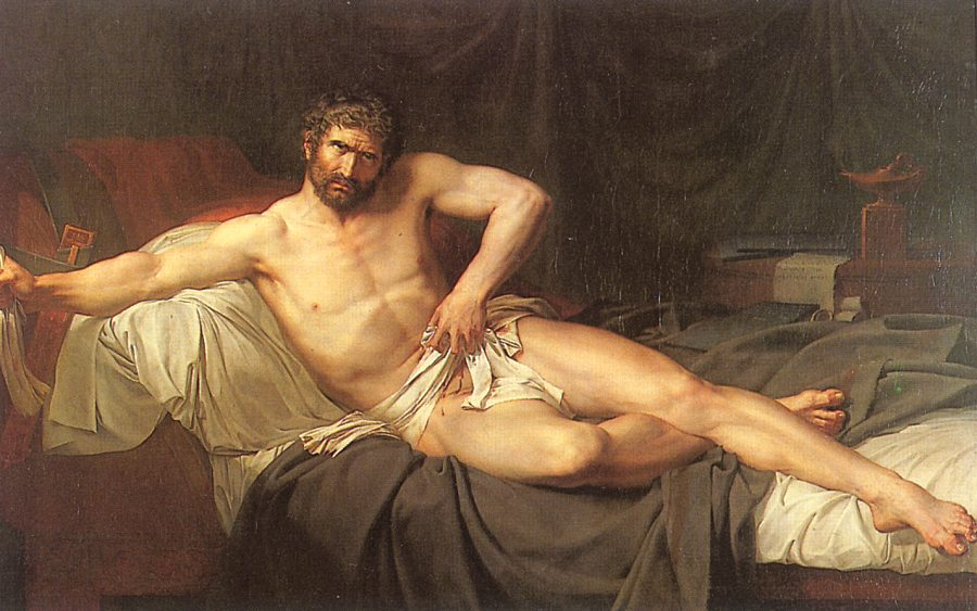 Marcus Porcius Cato Uticensis (95 BC–46 BC)